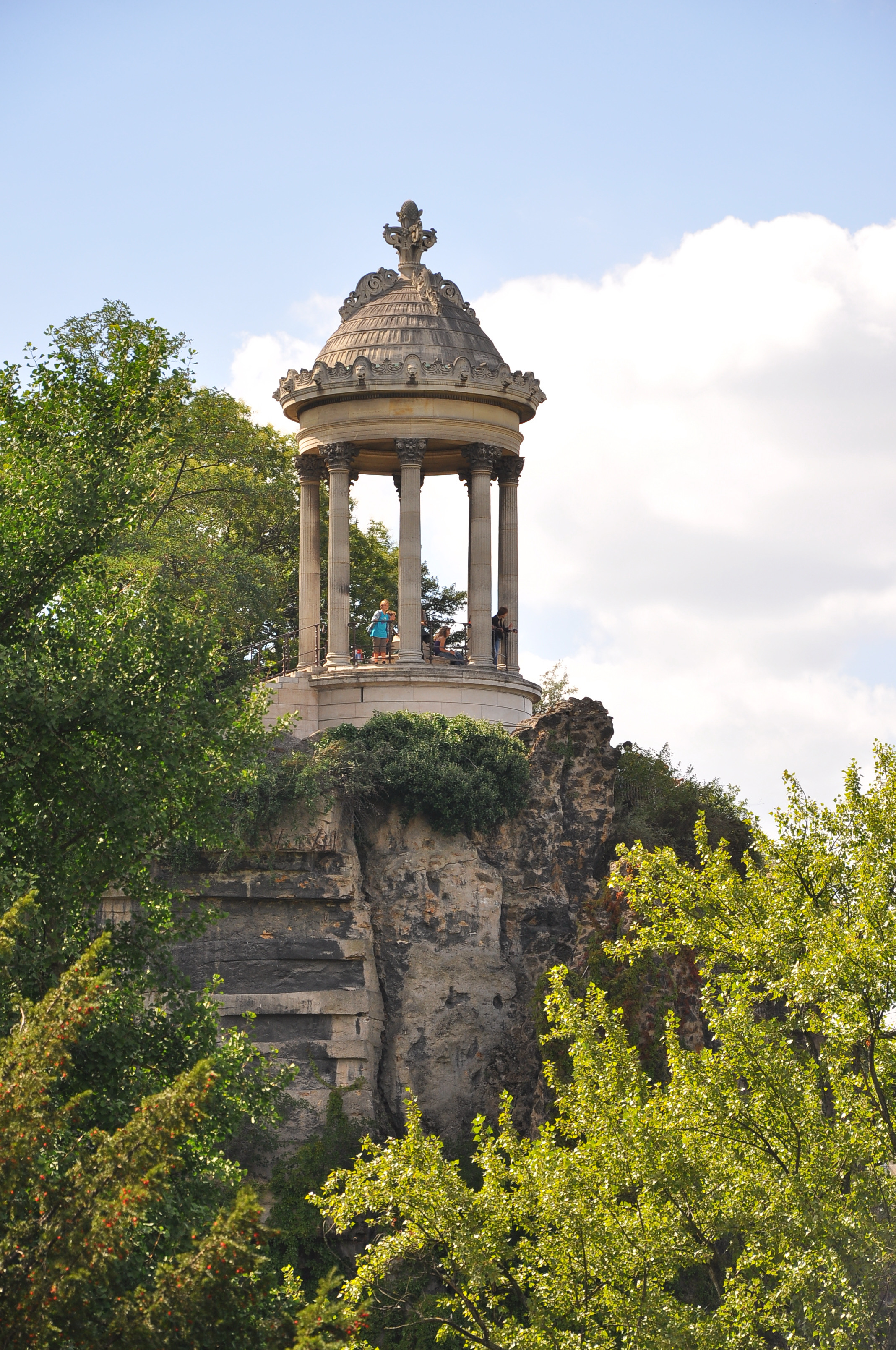 Temple of Sibylle at Buttes Chaumont Garden in Paris 19th district. Work of Gabriel Davioud at 1869.